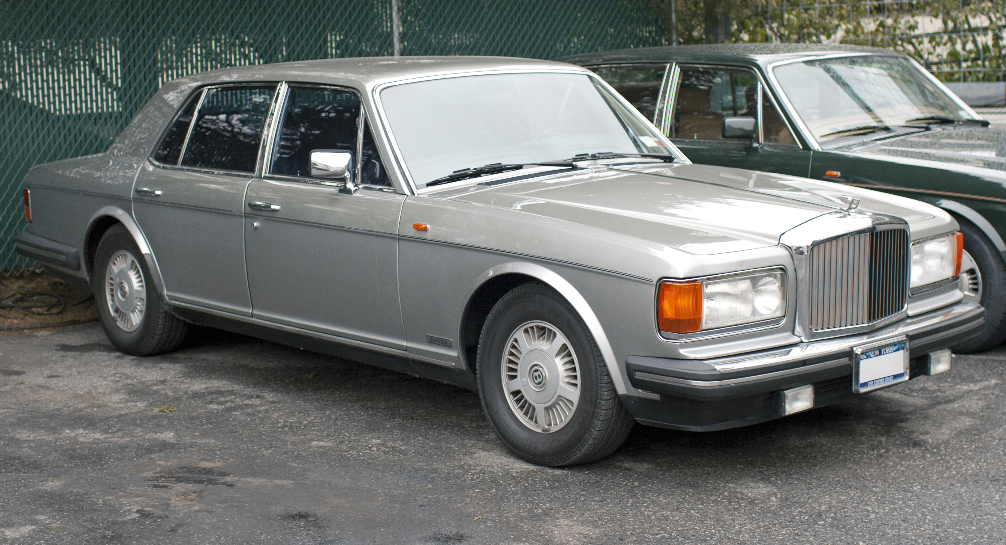 1987 Bentley Eight. Unusually, this car has the slatted grille normally reserved for more expensive Bentleys. The winged "B" and Euro headlamps are also not commonly seen.